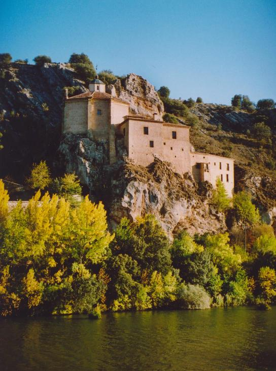 pilgrimage church Ermita de San Saturio (18th century) in Soria, Castile and León, Spain; own photo (scanned), 2 October 2005